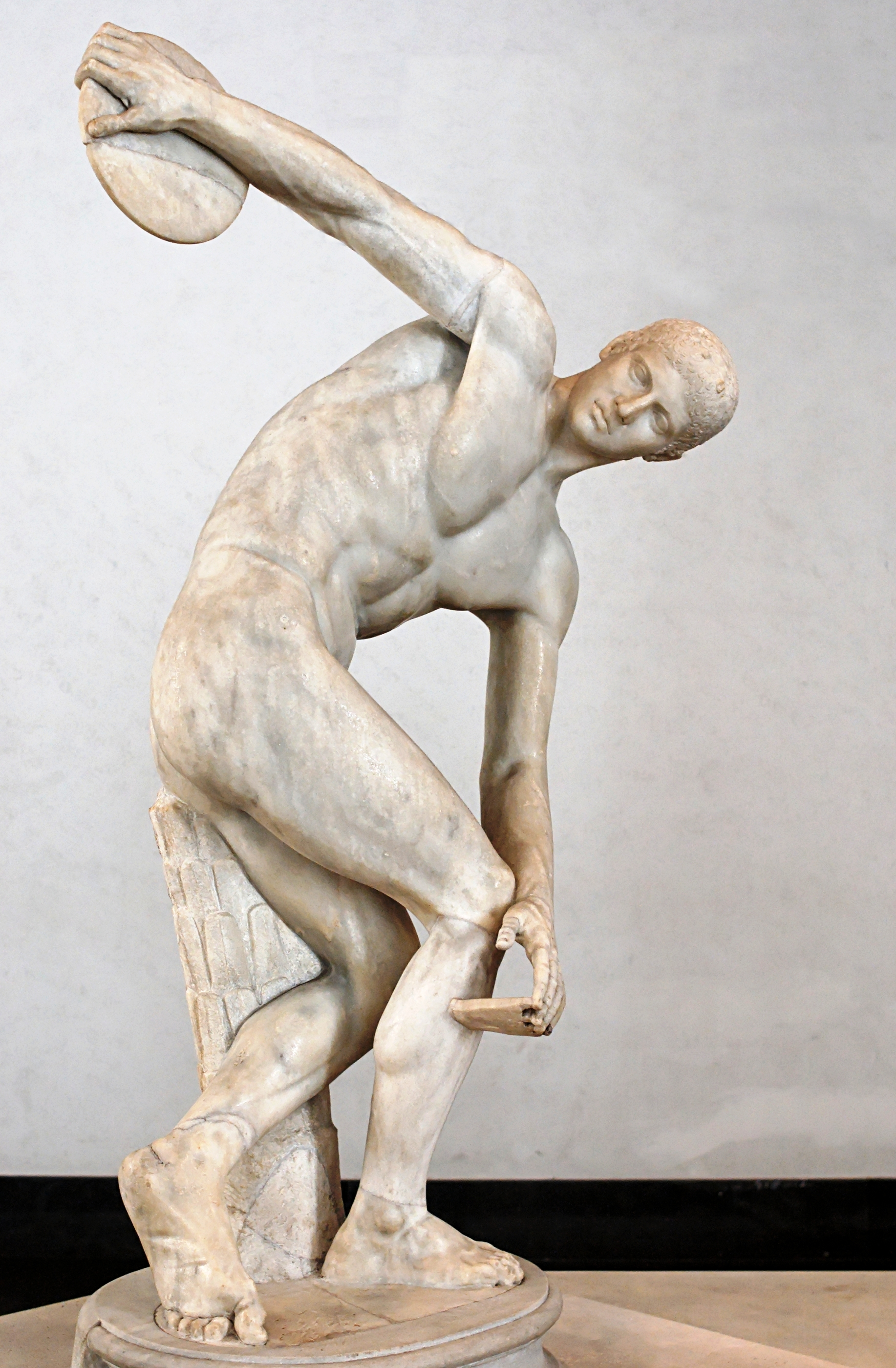 Roman copy of the Imperial era of a Greek original.